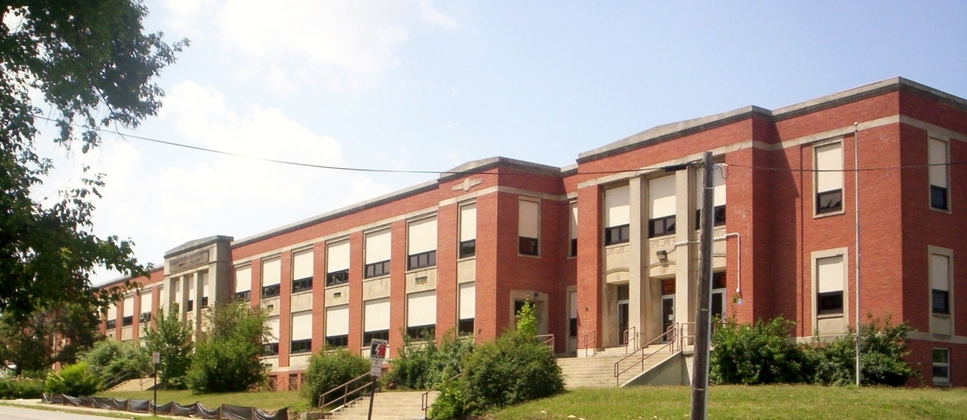 Former John Simpson Middle School in the Mansfield City School District in Mansfield, Ohio, USA. The school was built in 1939. Due to budgetary considerations, in fall of 2007 John Simpson Middle School, as well as two elementary schools in the Mansfield City School District were closed for good. Demolition is pending for the old John Simpson Middle School as of 2011.